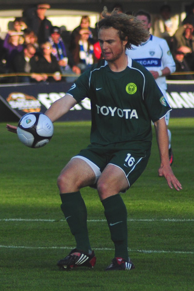 photo of soccer player, Stephen Keel.